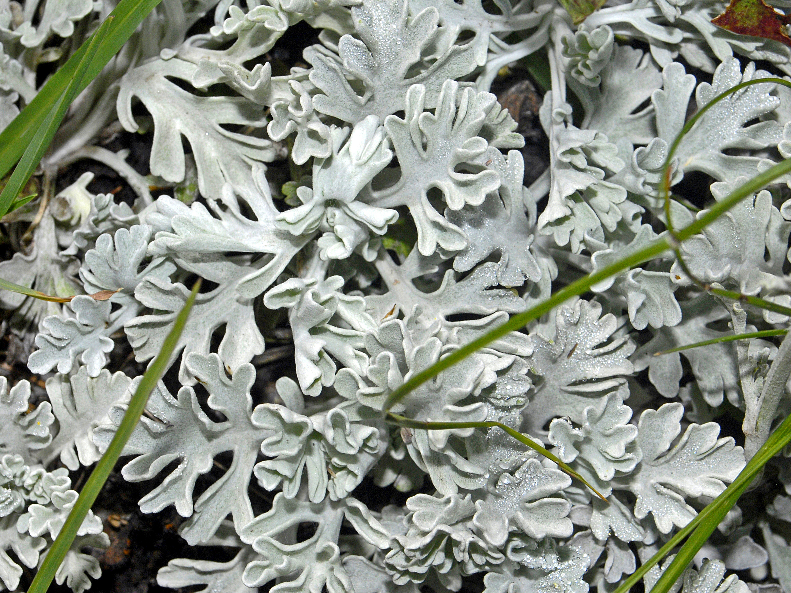 Leaves of Jacobaea incanasubsp. carniolica at the Giardino Botanico Alpino Chanousia